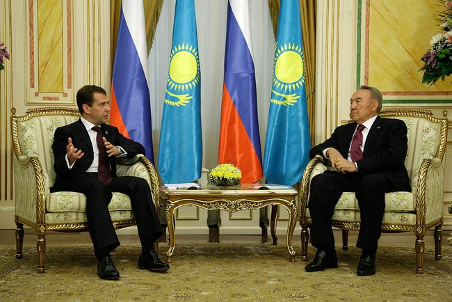 With President of Kazakhstan Nursultan Nazarbayev.